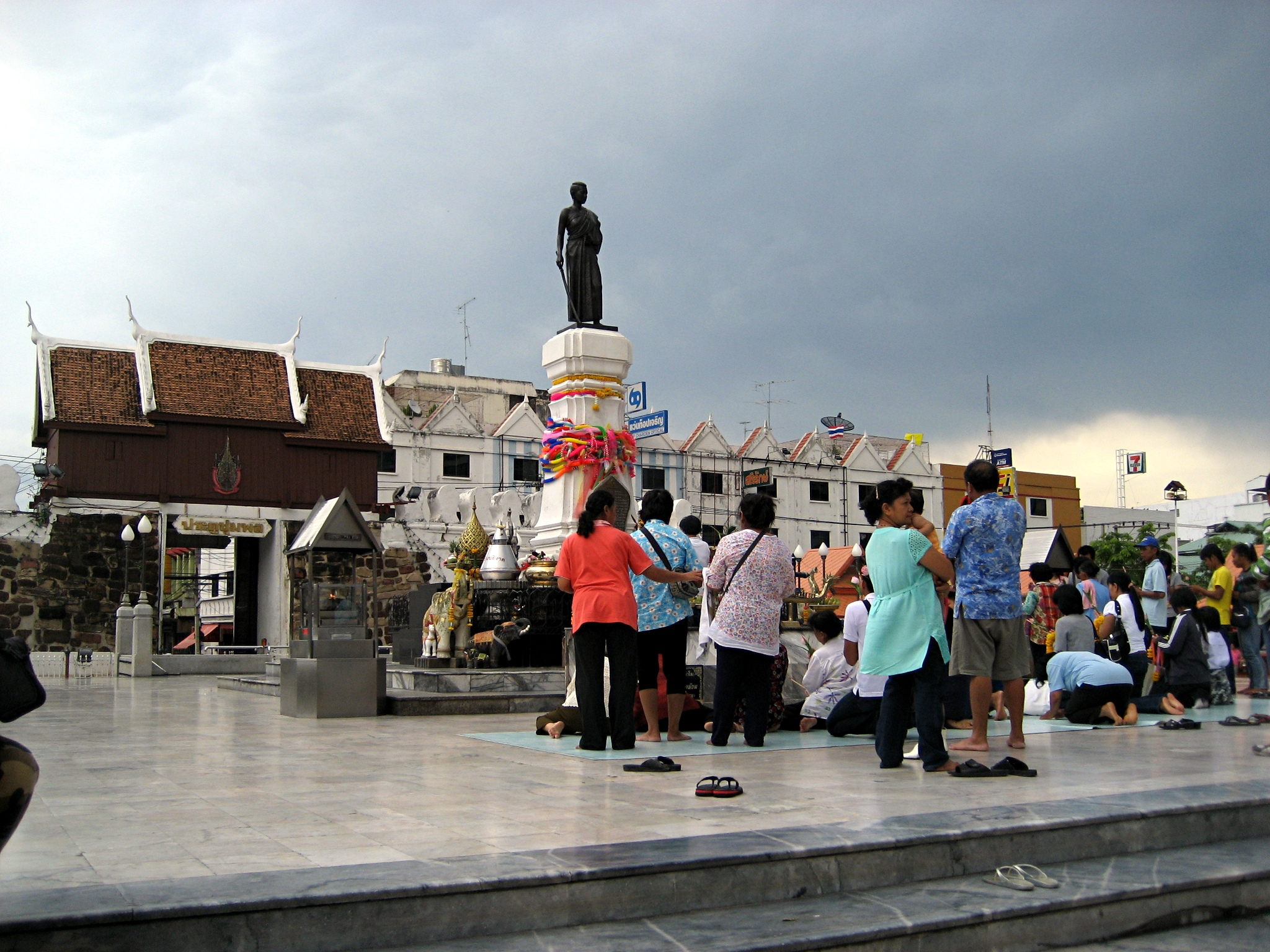 Thao Suranaree statue in Nakhon Ratchasima City, Thailand. In the background, the Chumphon Gate.